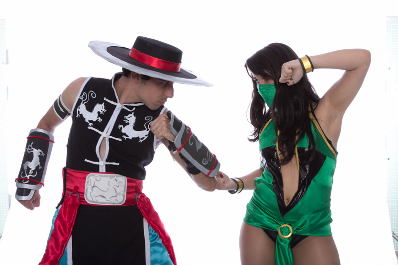 AnimABC - 2011 2nd ed.